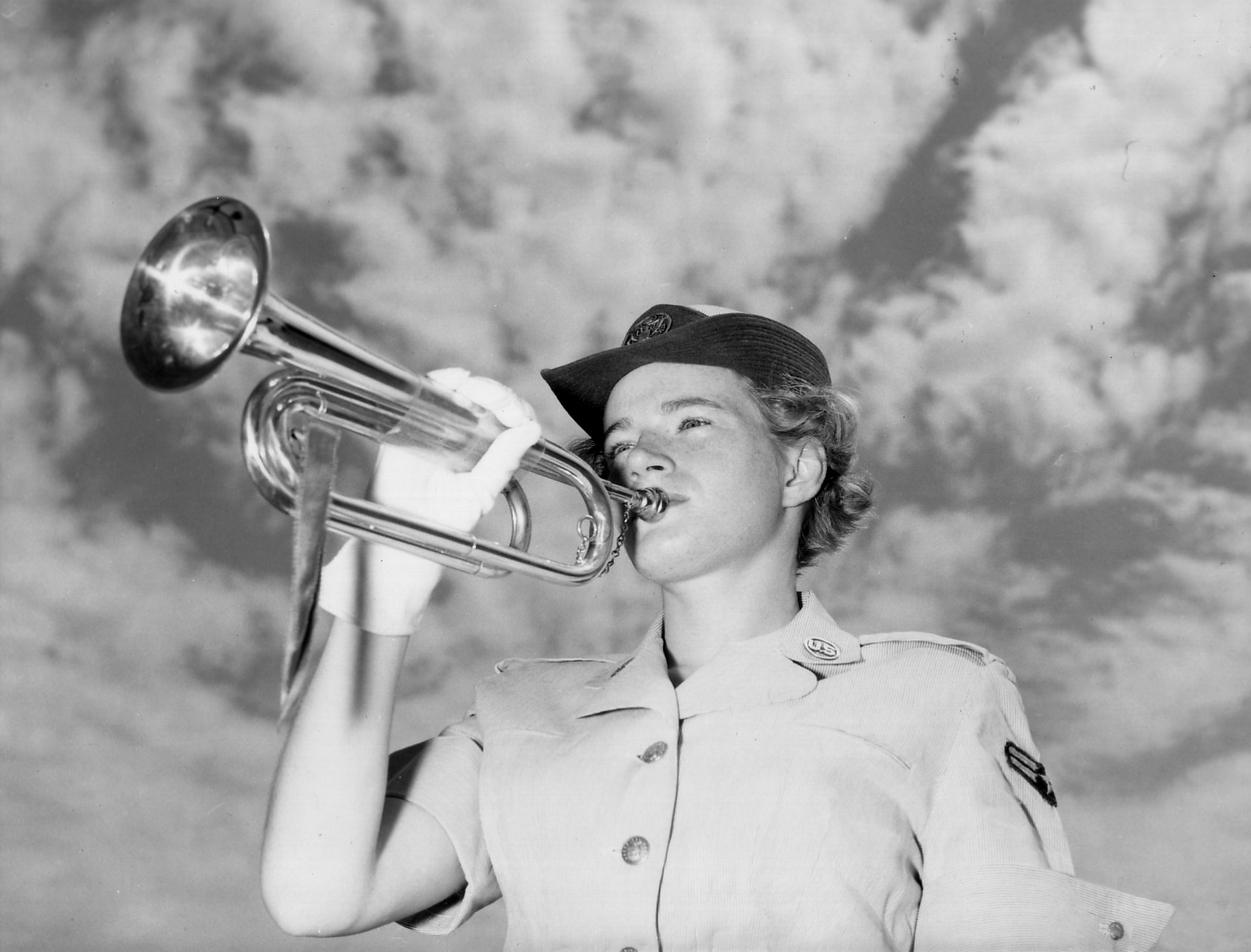 WAF Bugler A/2C Frances E. Courtney furnishes the bugle calls of taps and reveille for the 3452nd Student Squadron (WAF) at Francis E. Warren Air Force Base. It is believed that A/2C Courtney is the only WAF Bugler in the Air Force. 23 June 1953.